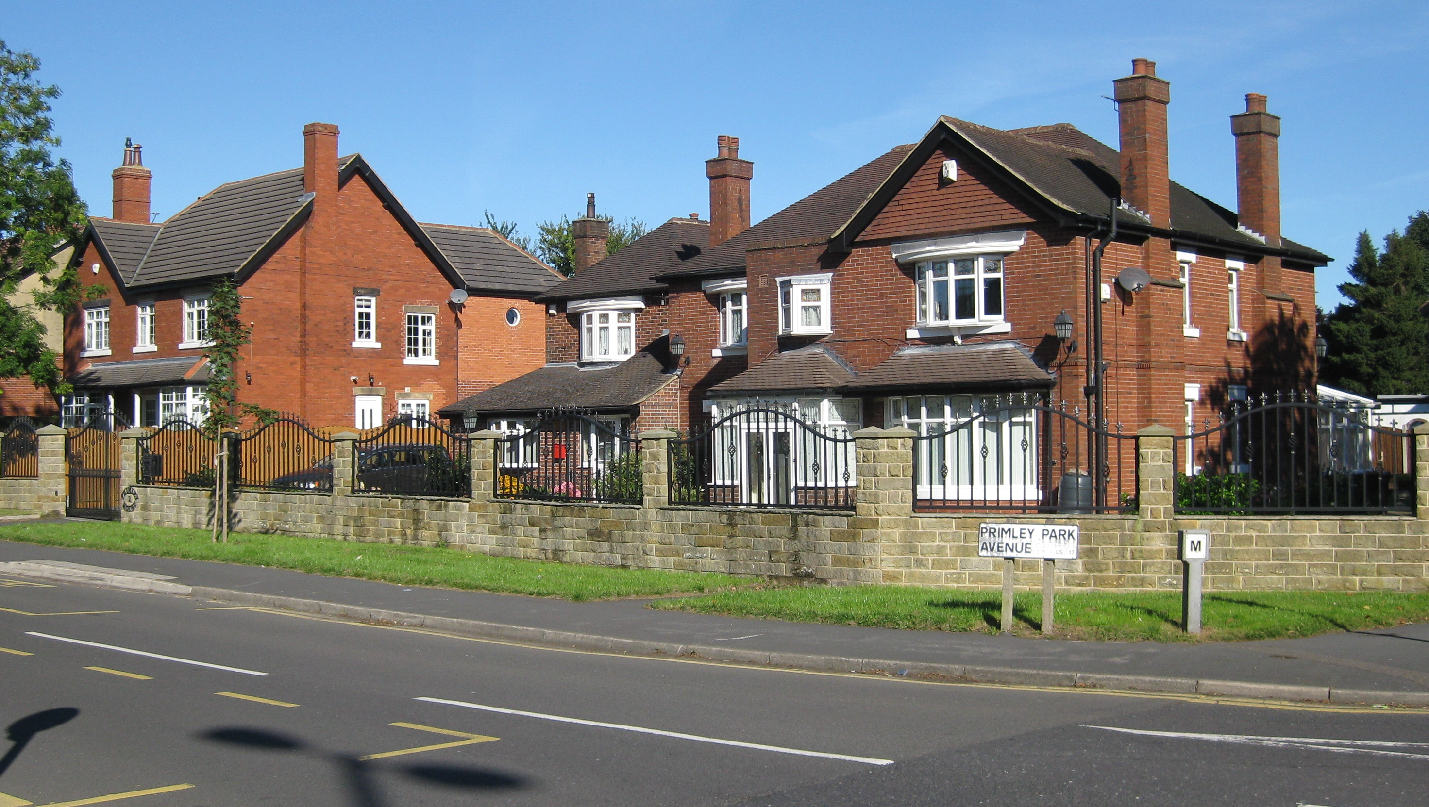 Primley Park Avenue, Alwoodley, Leeds LS17